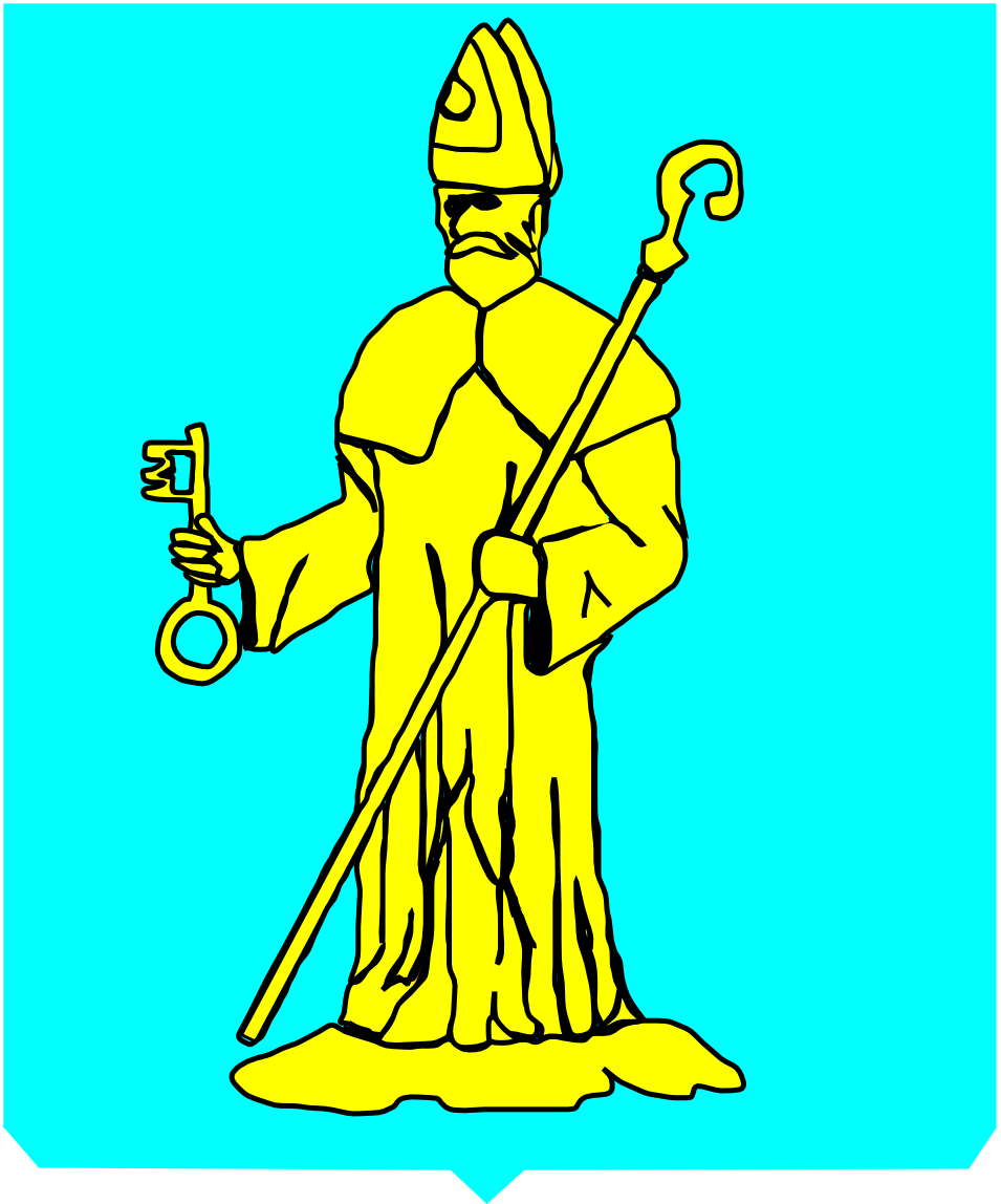 Coat of arms of Uccle/Ukkel, Belgium. Same as official one but in much better resolution than found on Uccle's website